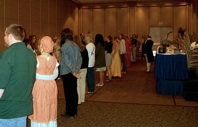 Regency Dance being taught at Westercon 58 in Calgary July 2005. Photo Taken by Dr Haggis.